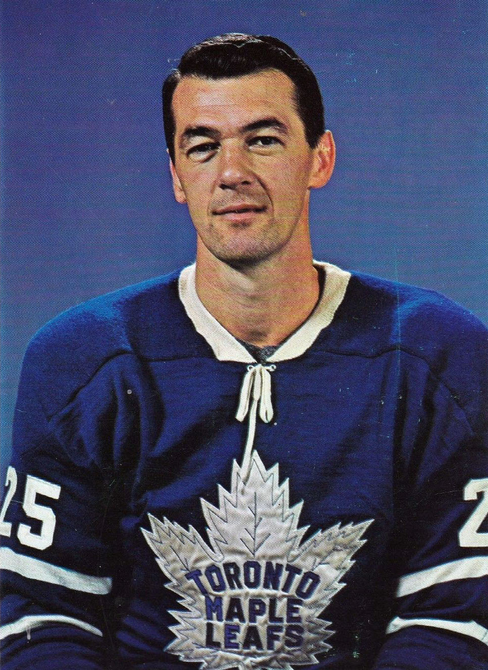 Trading card photo of Ed Litzenberger as a member of the Toronto Maple Leafs. These cards were printed on the backs of Chex cereal boxes in the US and Canada from 1963 to 1965. Those collecting the cards cut them from the back of the boxes.